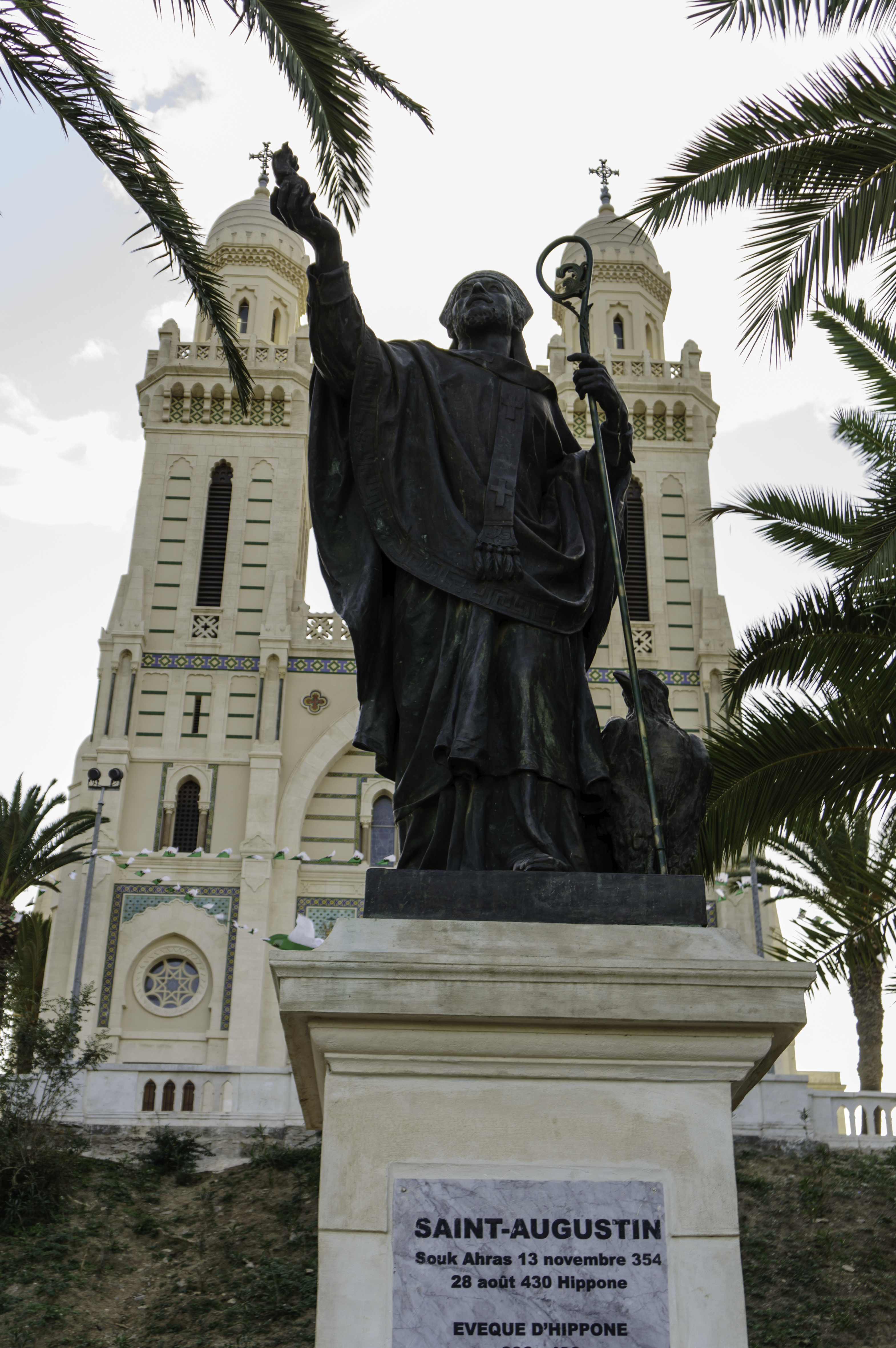 St. Augustine's Basillica, Hippo Regius